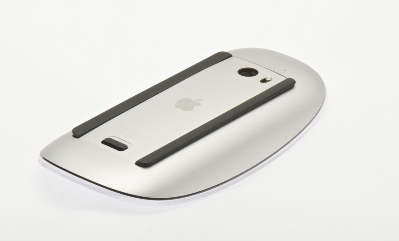 Apple Magic Mouse (upside down)